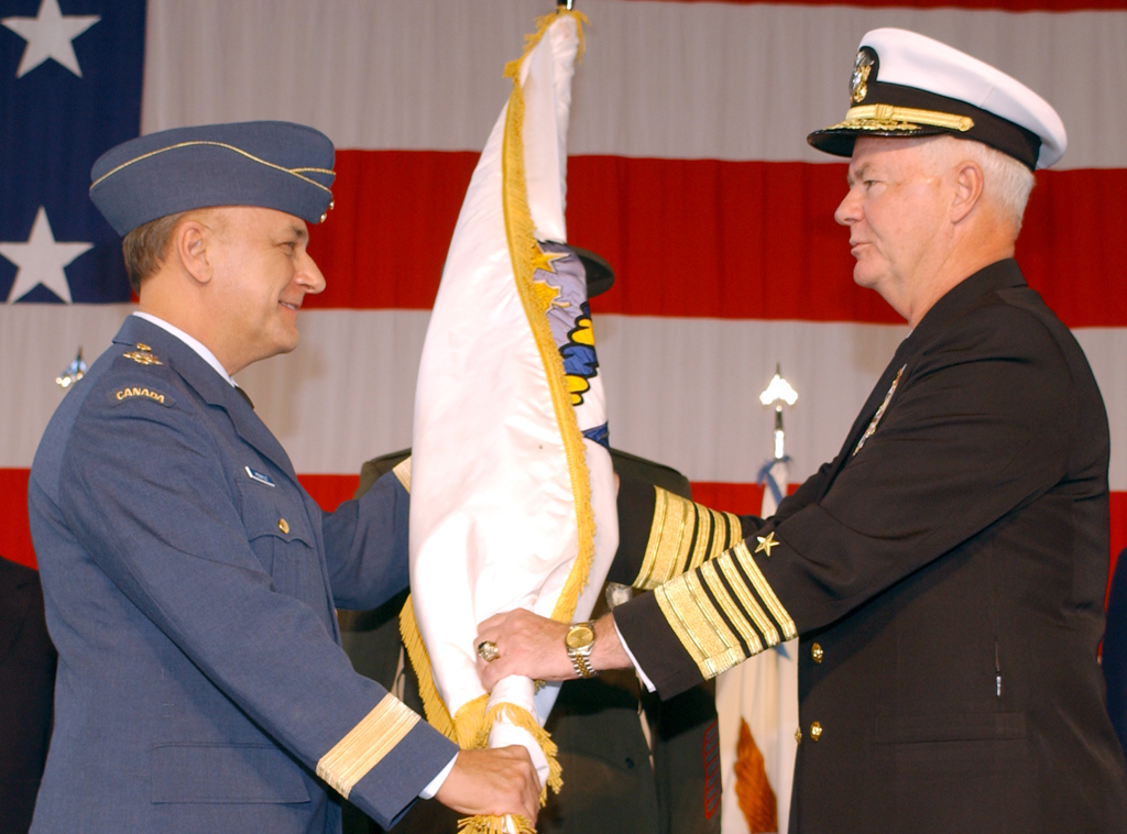 Timothy J. Keating (right) assumes command of NORAD. Canadian General R. R. Henault presenting the NORAD command flag to Admiral Keating during the NORAD Change of Command ceremony held at Peterson AFB, Colo. November 5, 2004 Photo by Staff Sgt Lawrence Holmes, USAF .